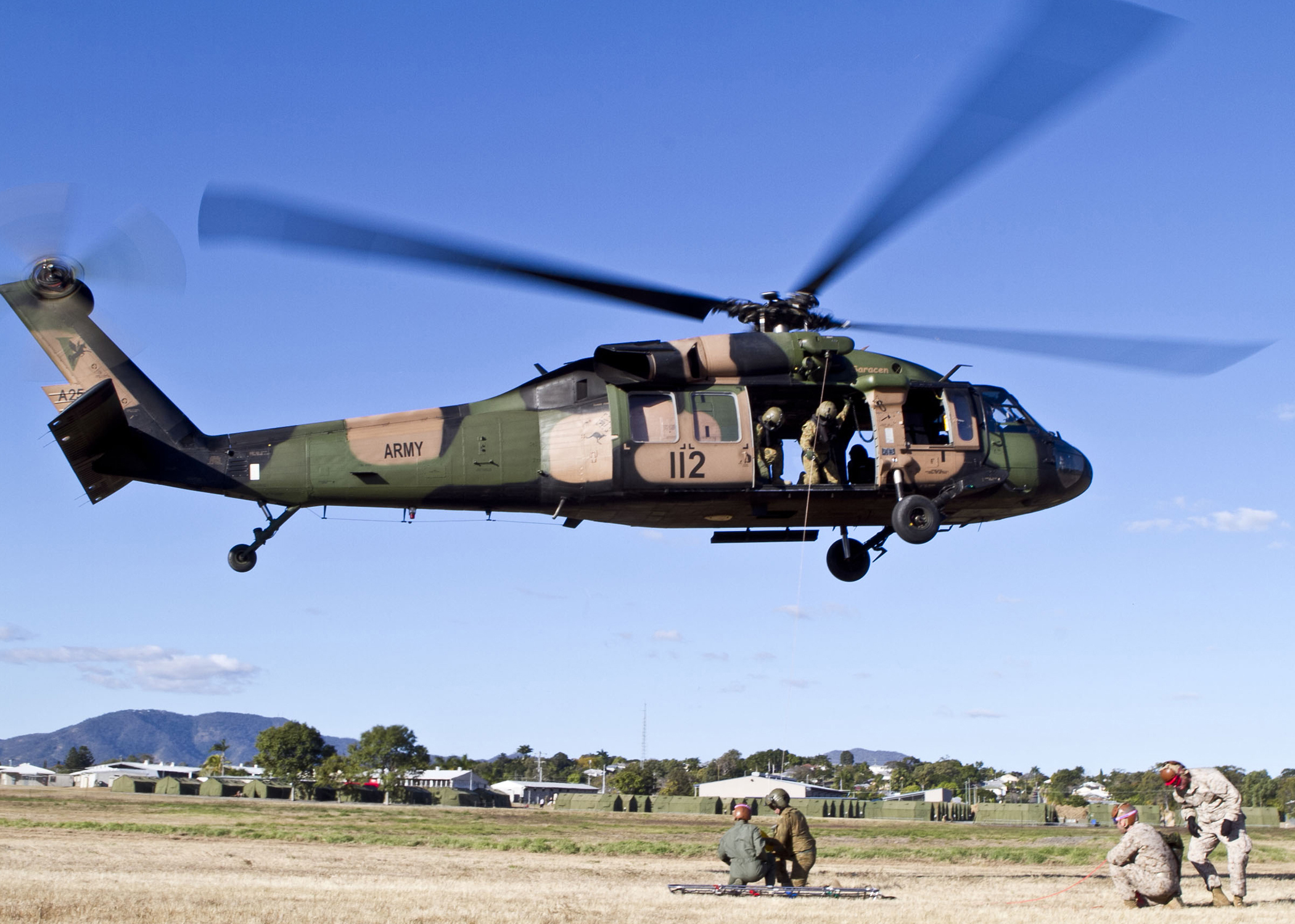 Medical teams from the Royal Australian Air Force Air Medical Team, 3rd Health Support Battlion, AQ Force Command, and U.S. sailors from the 3rd Medical Battalion, part of III Marine Expeditionary Force, based in Okinawa, Japan, perform the 'two-man winch' rescue from a UH-60 Blackhawk from 5th Aviation Regiment out of Townsville, Queensland, hovering over a grass field at Camp Rocky in Rockhampton. The rescue training qualifications are a part of Talisman Sabre 2011. TS11 is a biennial combined training activity designed to train Australian and U.S. forces in planning and conducting Combined Task Force operations to improve ADF/U.S. combat readiness and interoperability. It reflects the closeness of the alliance and the strength and flexibility of the ongoing military-military relationship.